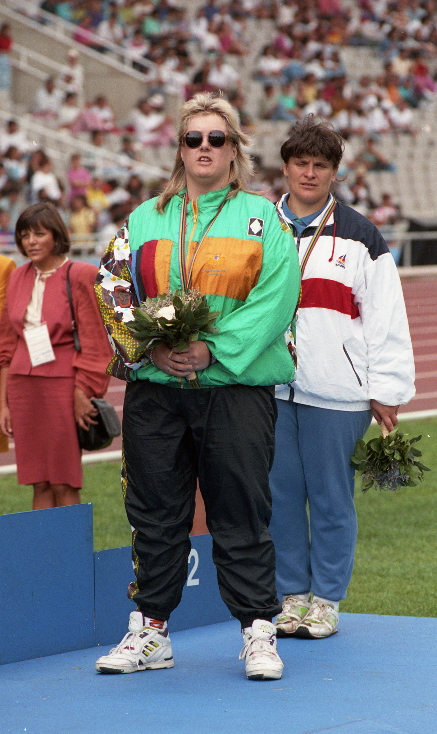 Australian athlete Jodi Willis stands at the podium after winning the Women's Shot Put B2 event at the 1992 Summer Paralympics. Behind her is silver medalist Nada Vuksanovic of the Independent Paralympic Participants team.